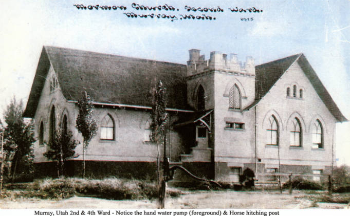 Murray Utah LDS Second Ward - National Historic Register site